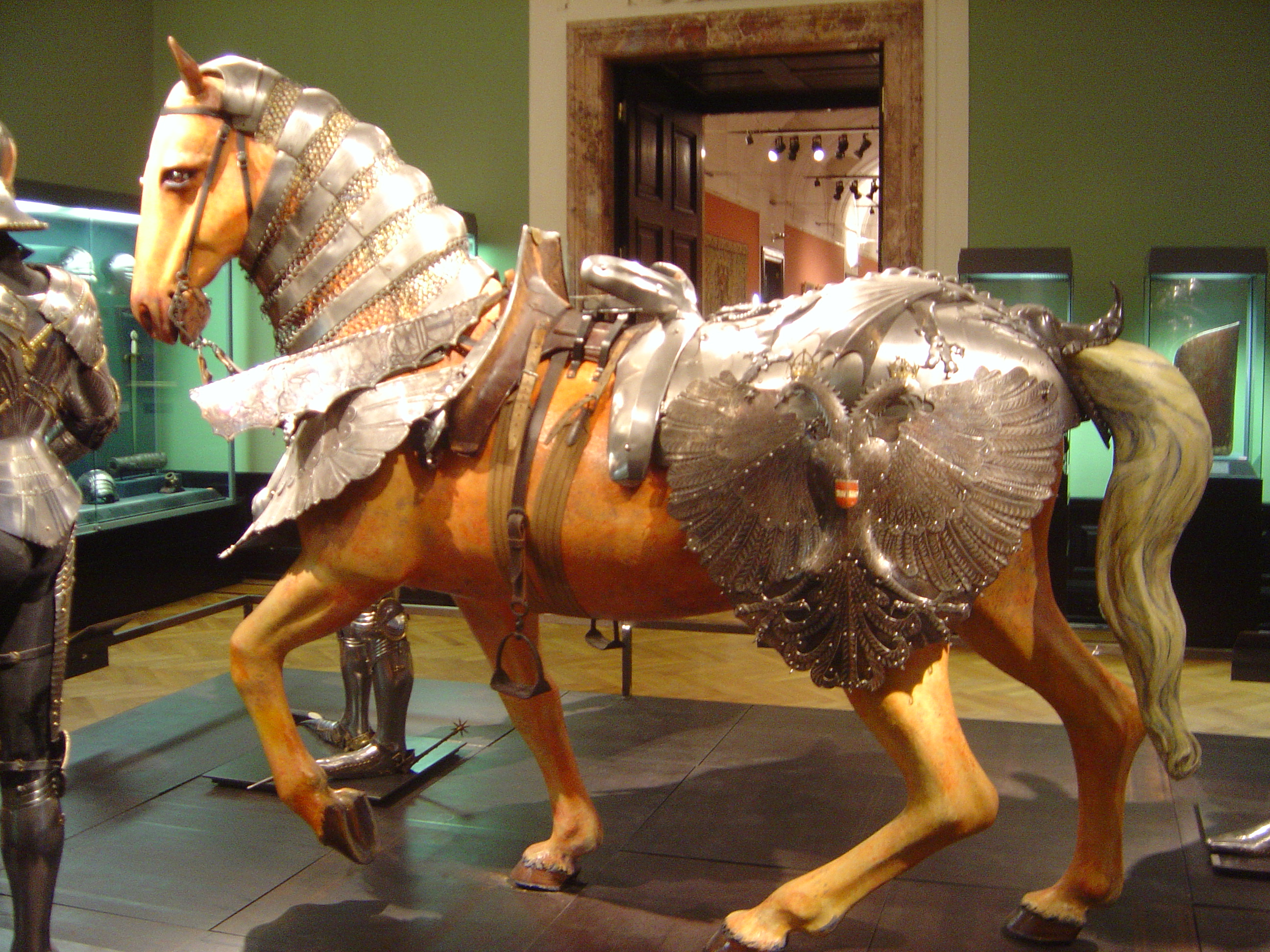 A suit of armor for a horse.